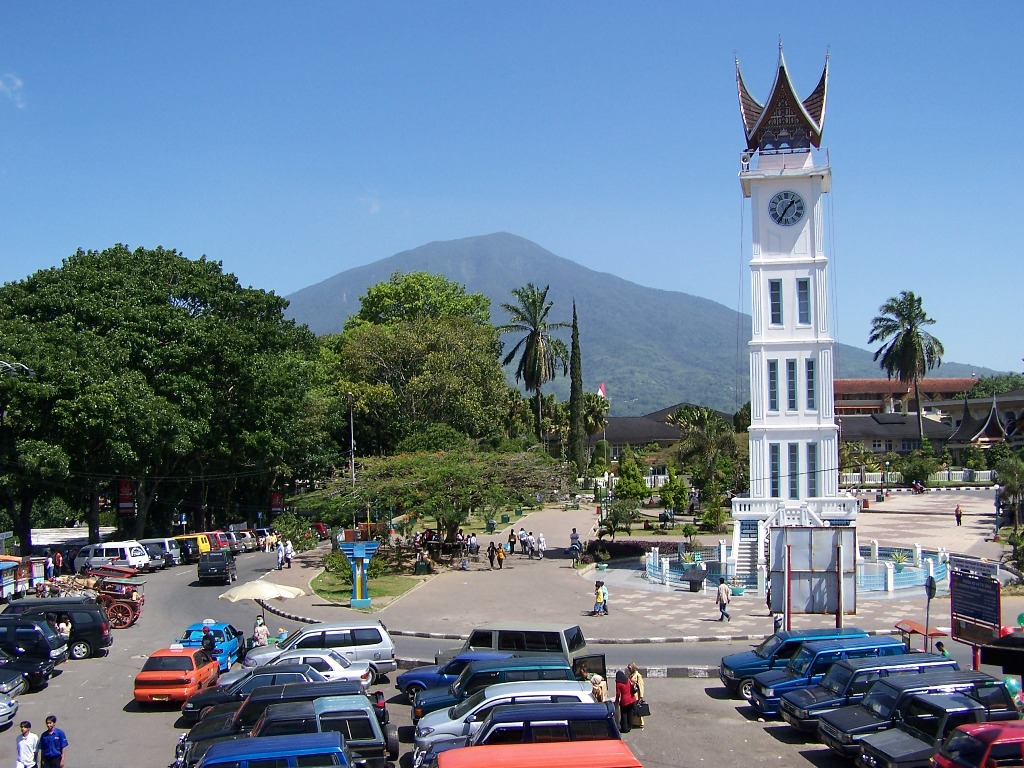 A sunny day near Jam Gadang in Bukittinggi. Courtessy: Hanafi. Taken in June 2006 [1] salam rindu jo kampuang dari urang2 Rantau.......... :(